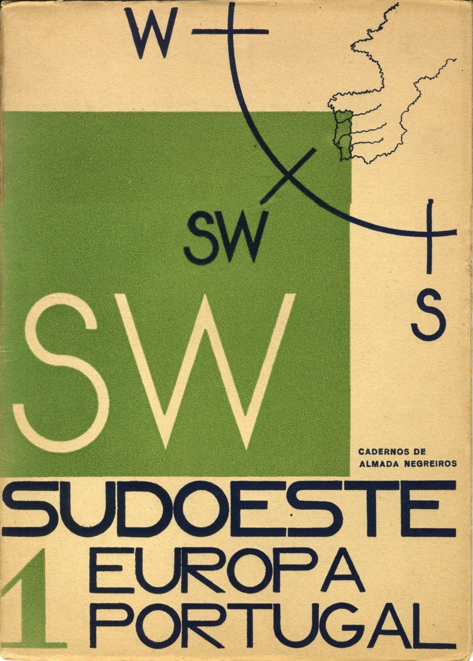 Sudoeste Magazine, Nr 1, 1935